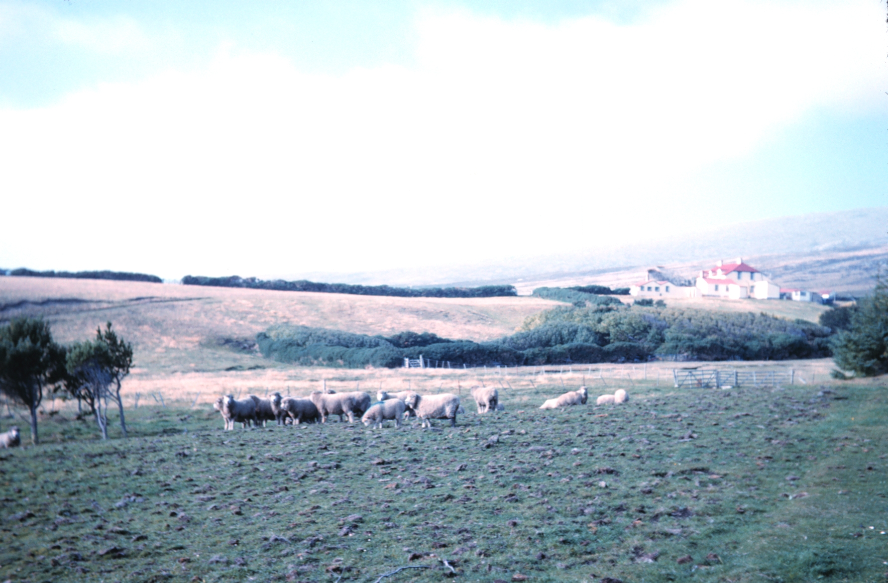 Sheep farming at Hill Cove, West Falkland